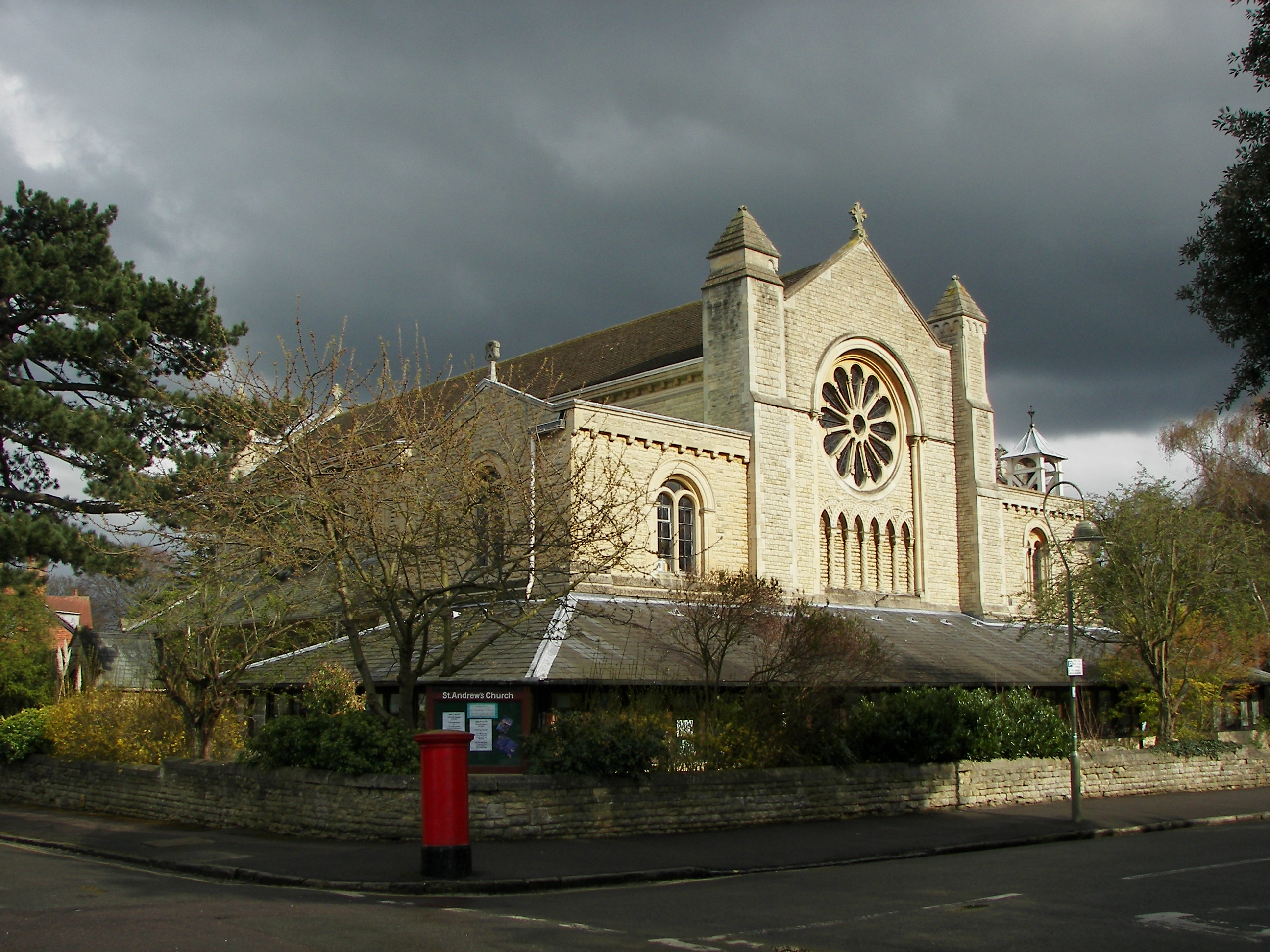 St Andrew's parish church, Northmoor Road, Oxford, England, at the junction with Linton Road, seen from the northwest